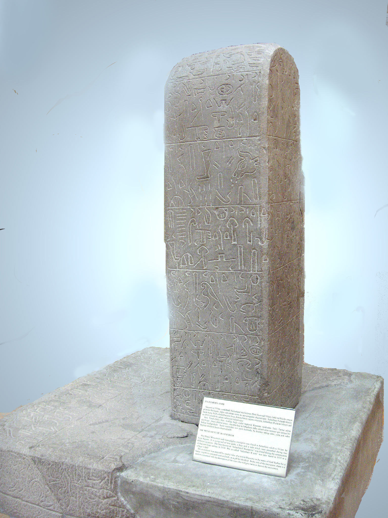 The Sultanhan monument is a stele with Luwian hieroglyphic inscription; found at Sultanhan; Museum of Anatolian Civilizations, Ankara, Turkey